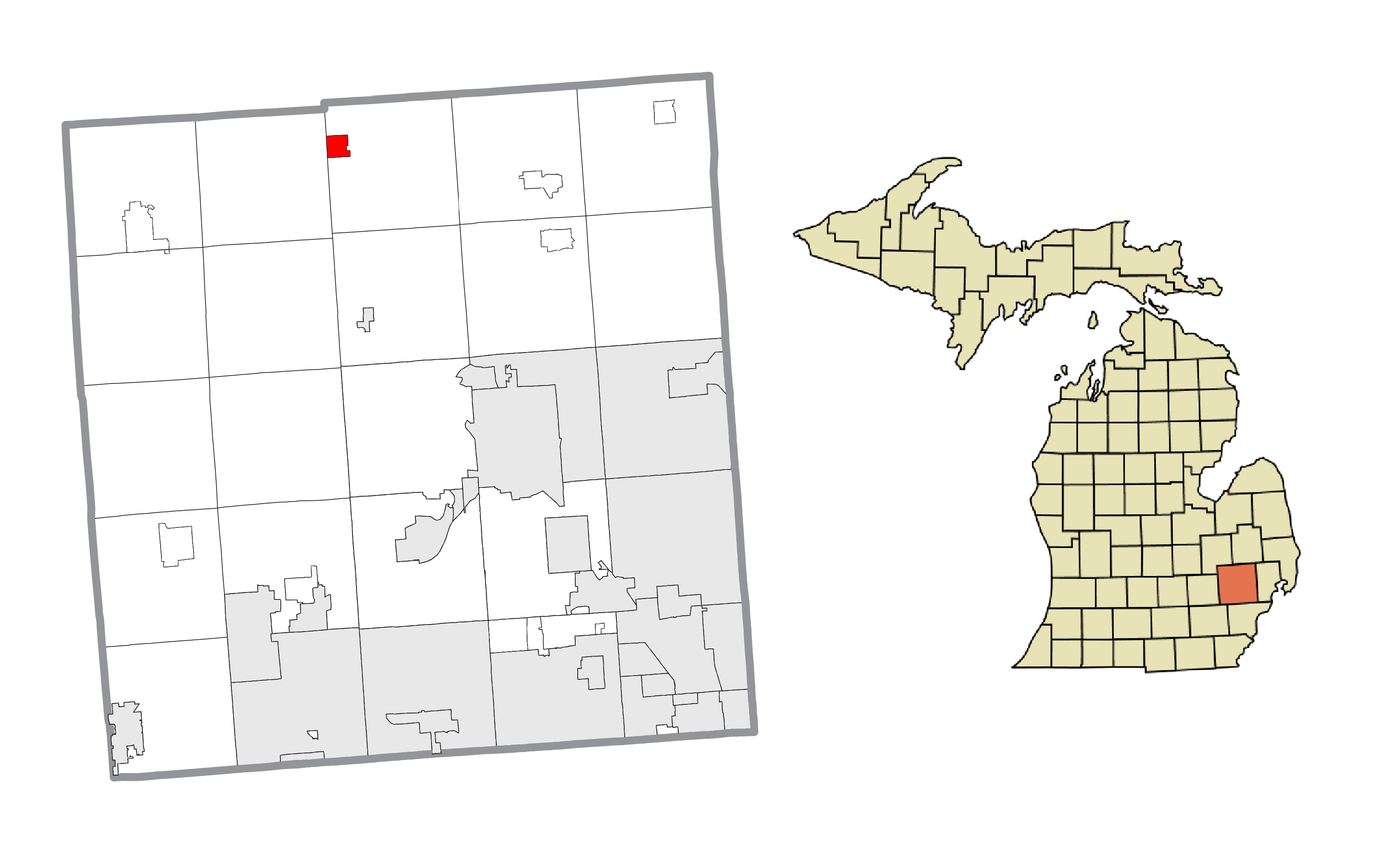 Ortonville, MI